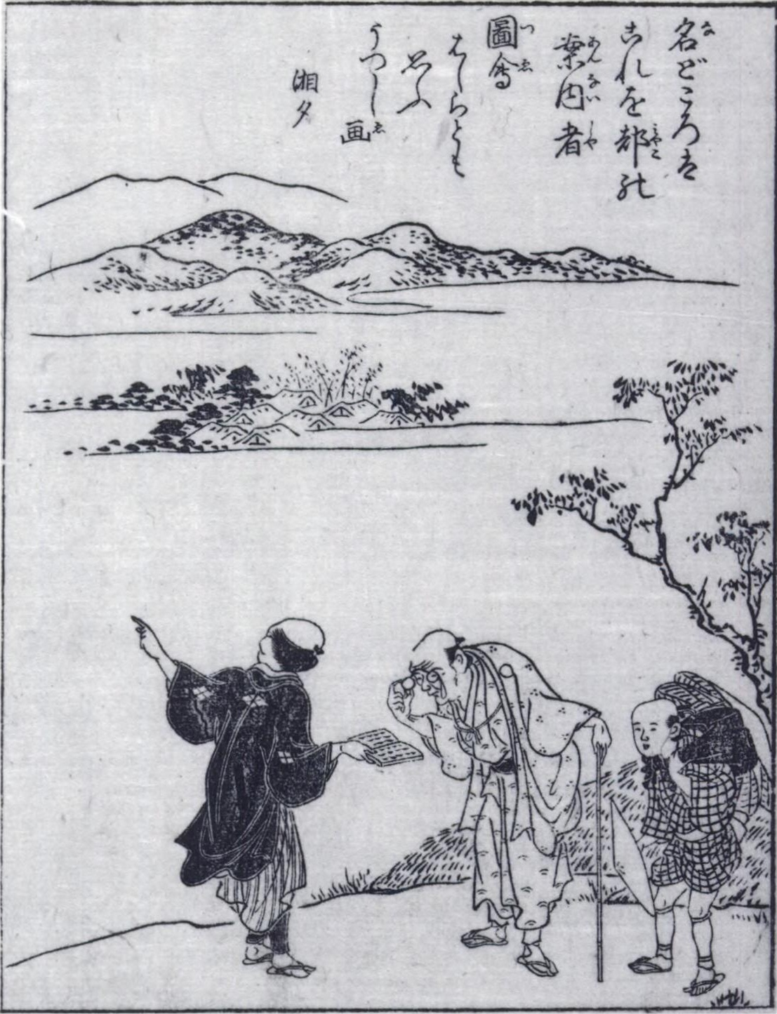 A Japanese tourist consulting a guide book and a tour guide as shown in "A Tour Guide to the Famous Places of the Capital" from Akizato Ritō's Miyako meisho zue (都 名所 圖會; An Illustrated Guide to the Capital), illustrated by Shunchosai Takehara Nobushige. The store benefited from being situated near the Great Buddha erected by Toyotomi Hideyoshi, one of Kyoto's most popular tourist attractions.